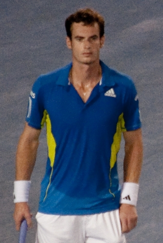 Andy Murray, Australian Open 2010 Quarterfinals.